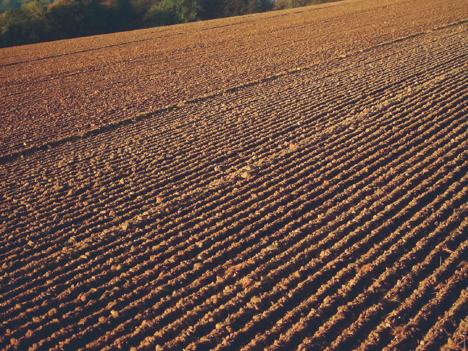 A freshly harrowed or rolled (?) field in the Condroz region of Belgium.